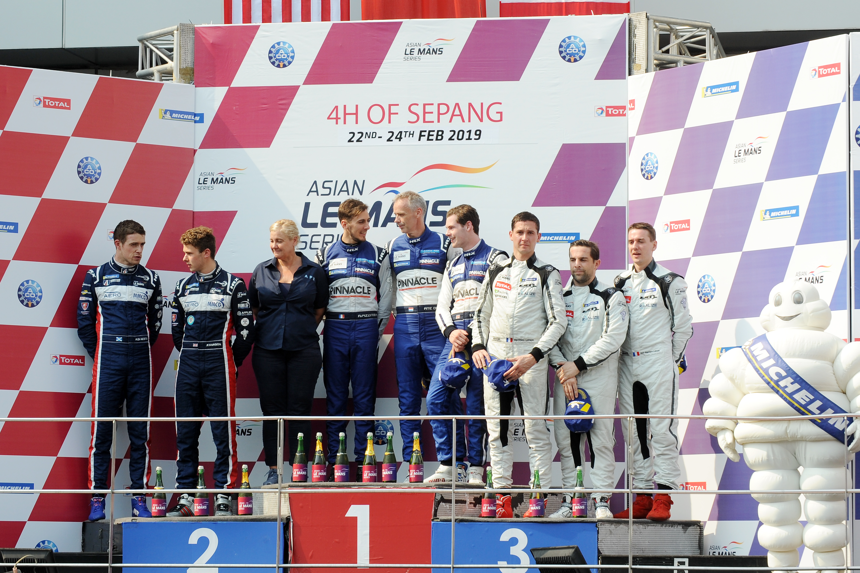 2019 4 Hours of Sepang - Asian Le Mans Series - Podium